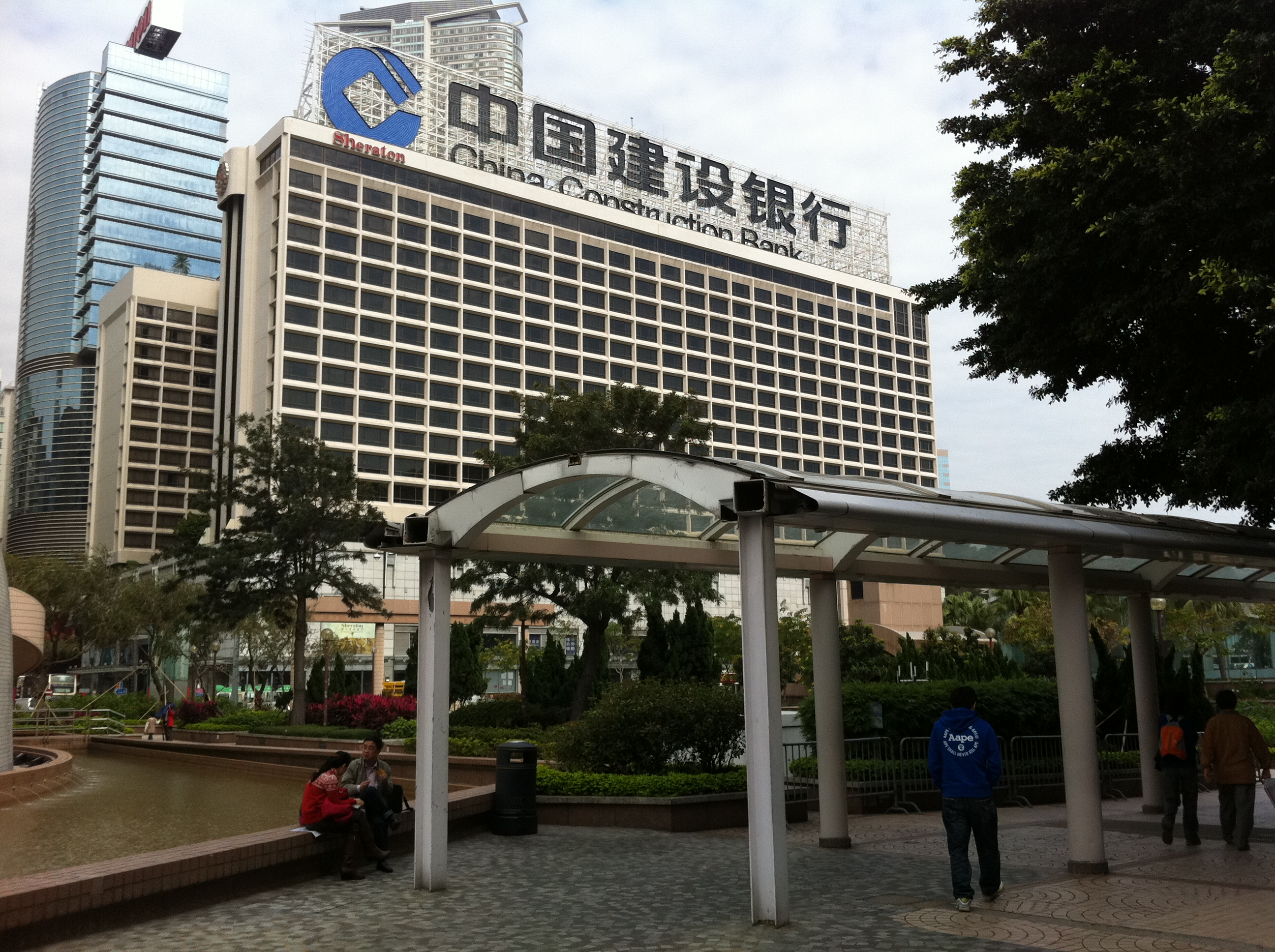 尖沙咀